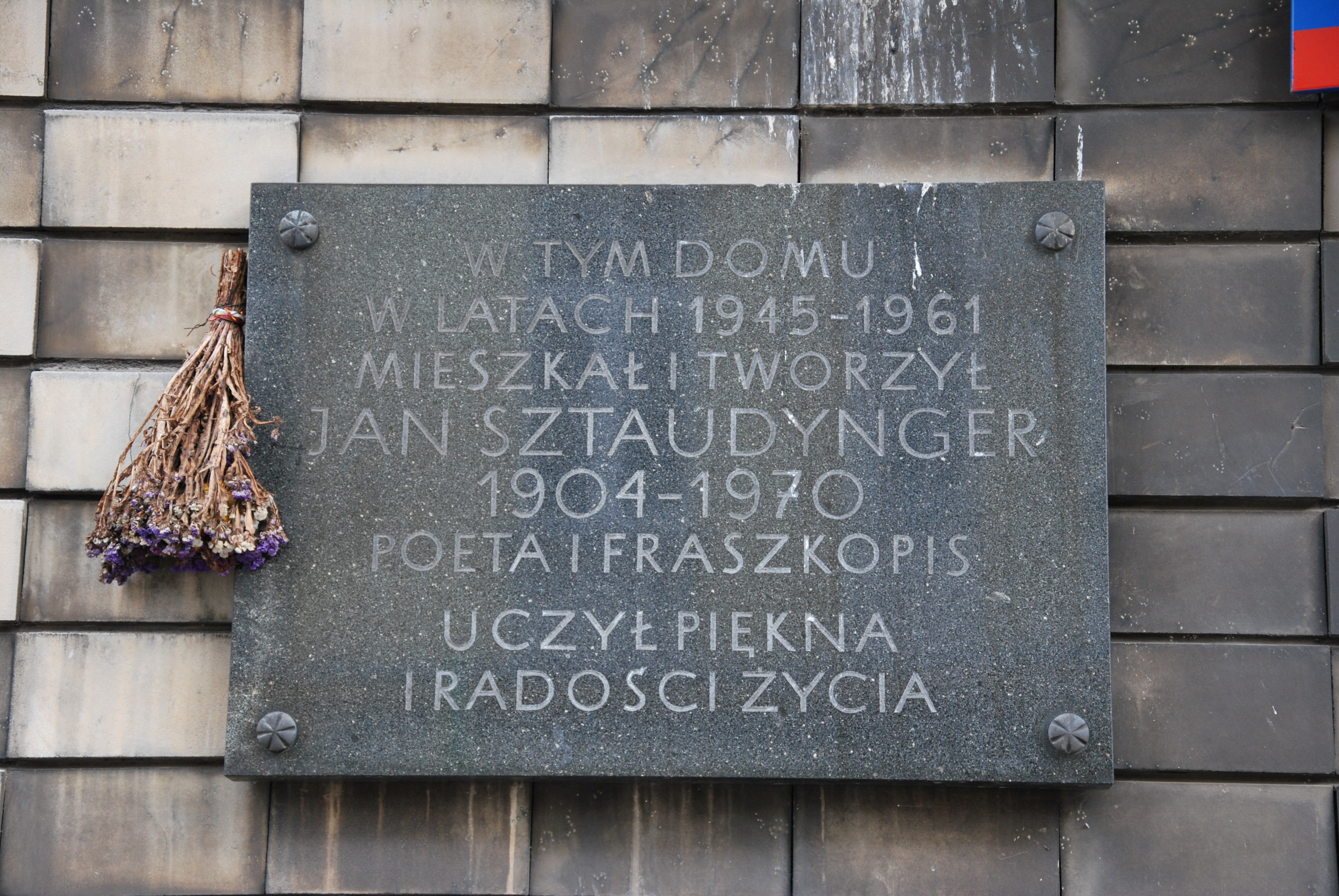 Plaque in memory of polish poet, Jan Sztaudynger, Łódź Żwirki Street